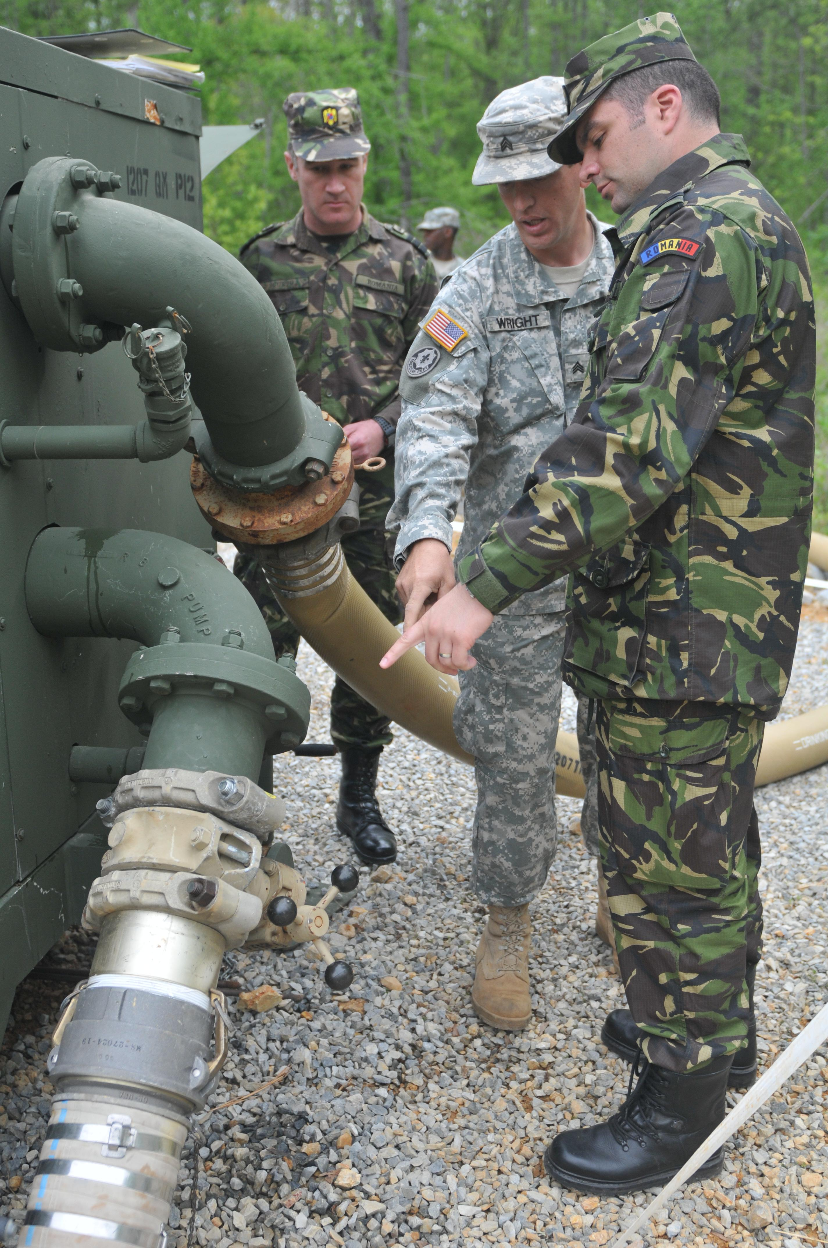 Sgt. Wright, 1208th Quartermaster Company, Lineville, Ala., works with Romanian non-commissioned officer Angelică Scurtu (left) and Lt. Sebastian Salvan (right) during water purification training at Pelham Range in Anniston, Ala.